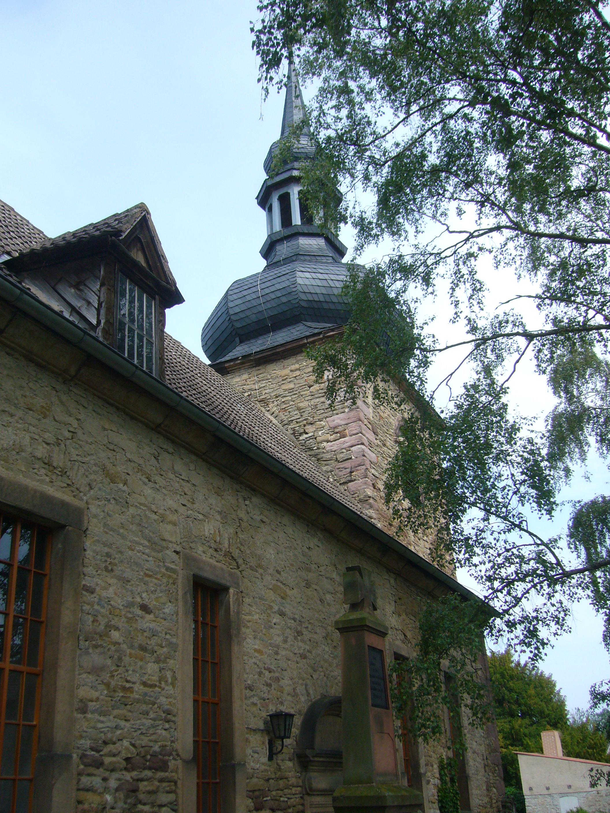 Curch in Ritteburg, Kyffhäuser region, Germany